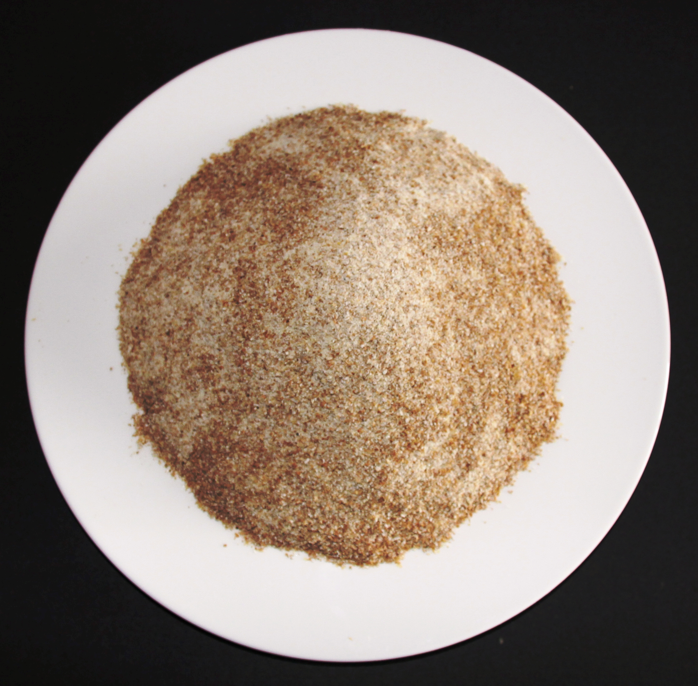 Musmehl, roasted flour (spelt and wheat)